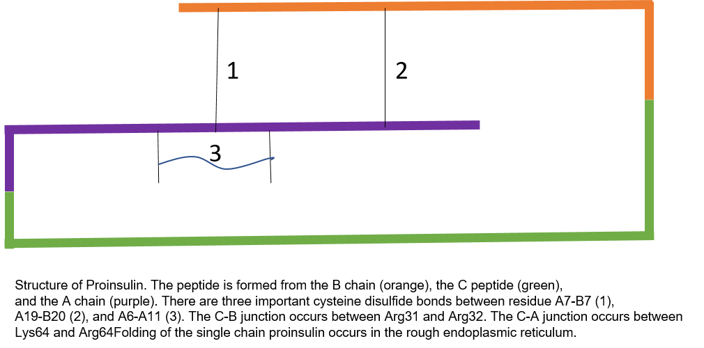 Proinsulin structure